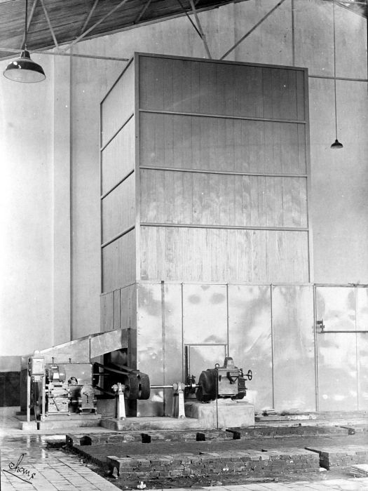 The dryer is the last element of fiber processing. Shown for the fiber company in Lho Soekon in Aceh, North Sumatra